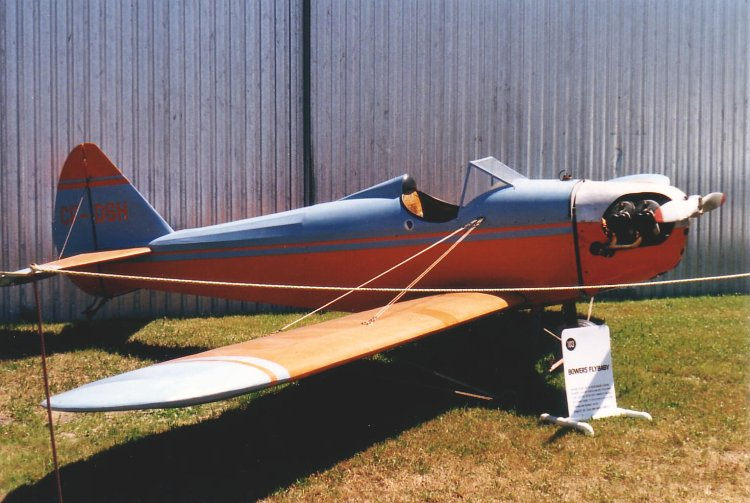 Bowers Fly Baby at the Canadian Museum of Flight on 23 July 1988.